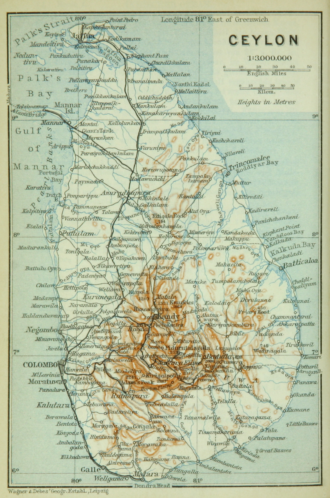 Map of Ceylon, modern Sri Lanka, ca. 1914 (1:3,000,000). Labelled in English.